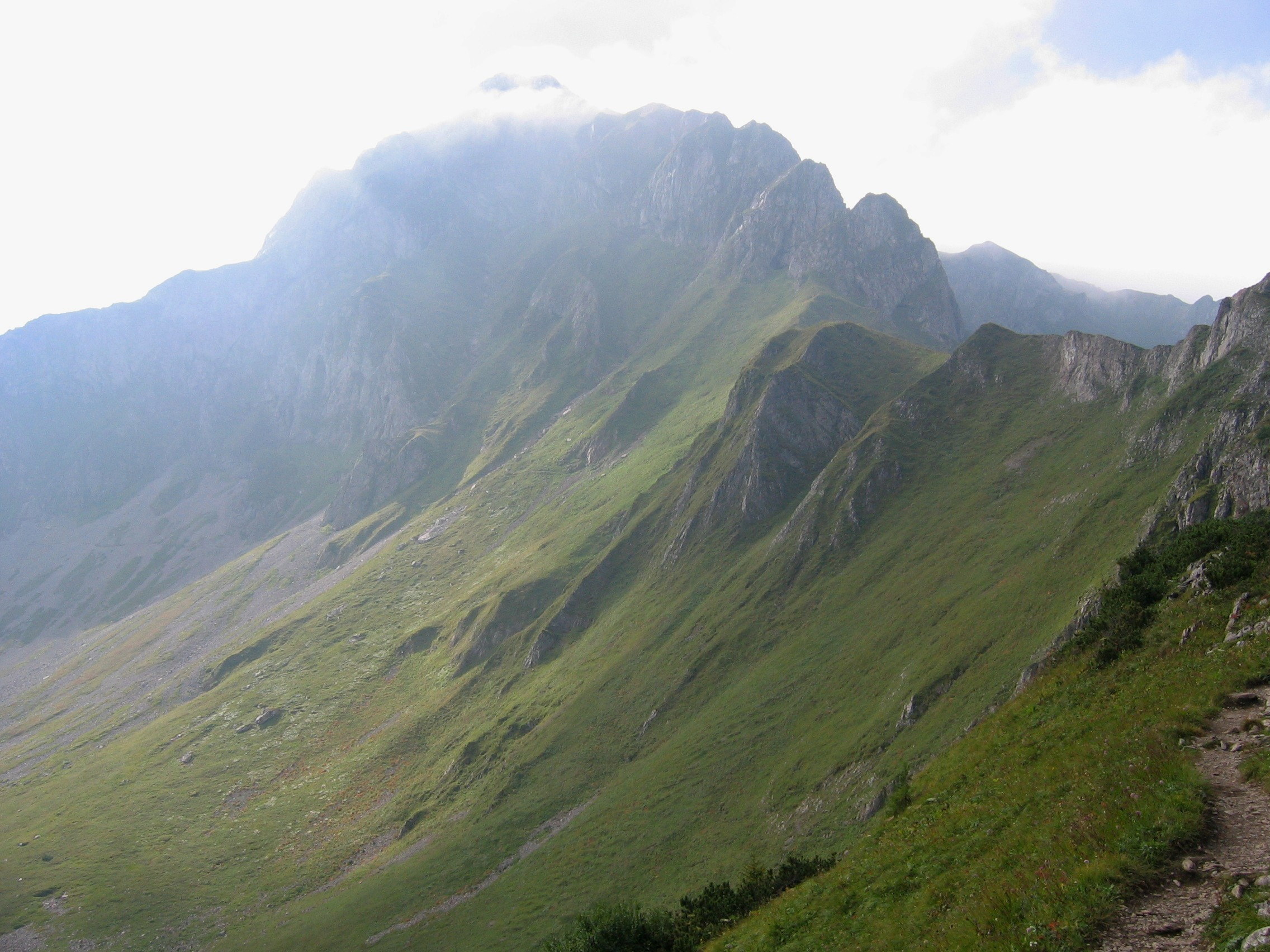 Eisenerzer Reichenstein in the Eisenerzer Alps in Styria, seen from Praebichl path